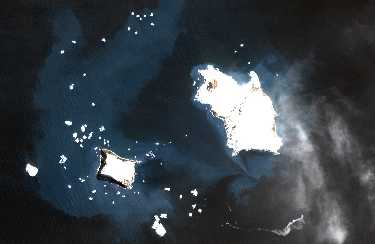 NASA Terra ASTER image of Candlemas and Vindication Island, South Sandwich Islands, in the Southern Atlantic Ocean